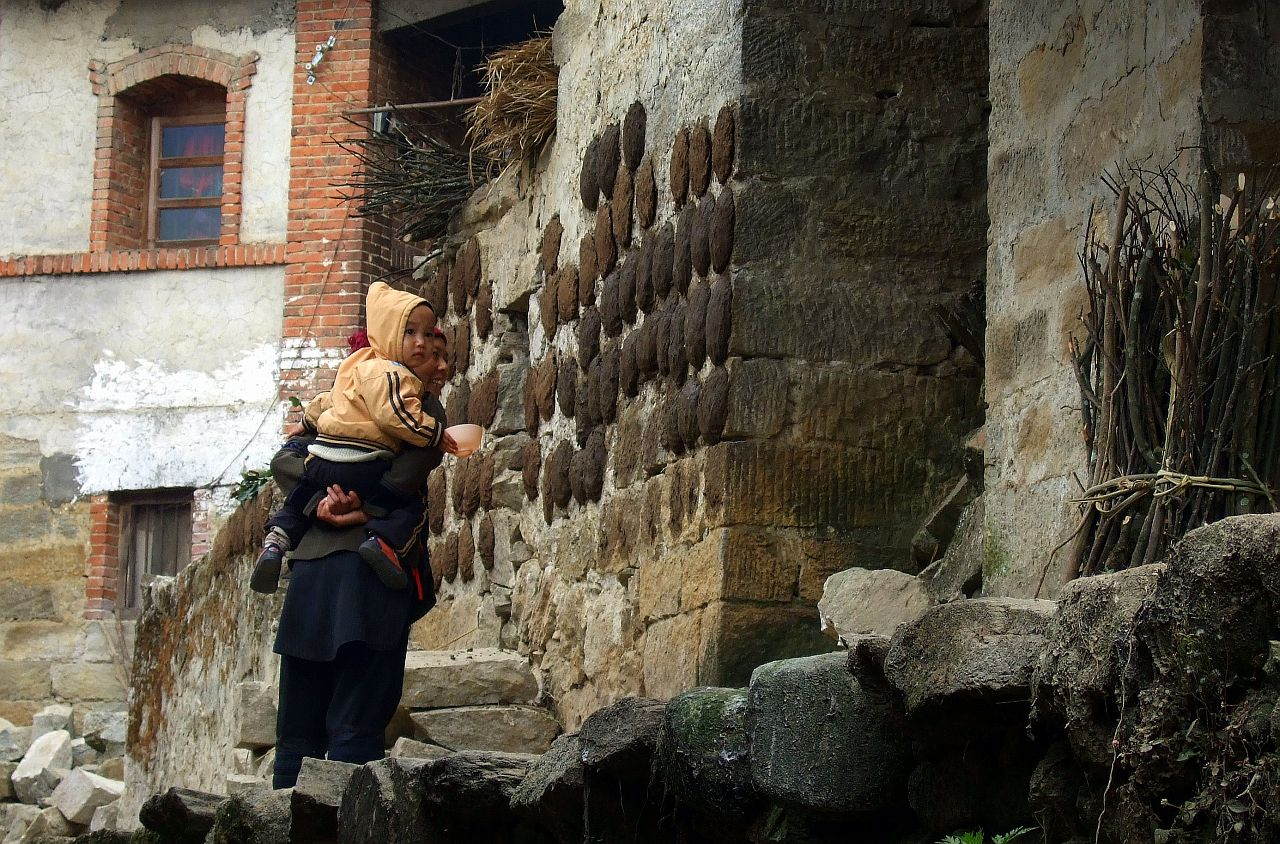 Water buffalo dung drying on a wall in a Hani ethnic minority village in Yuanyang county, Yunnan province, China